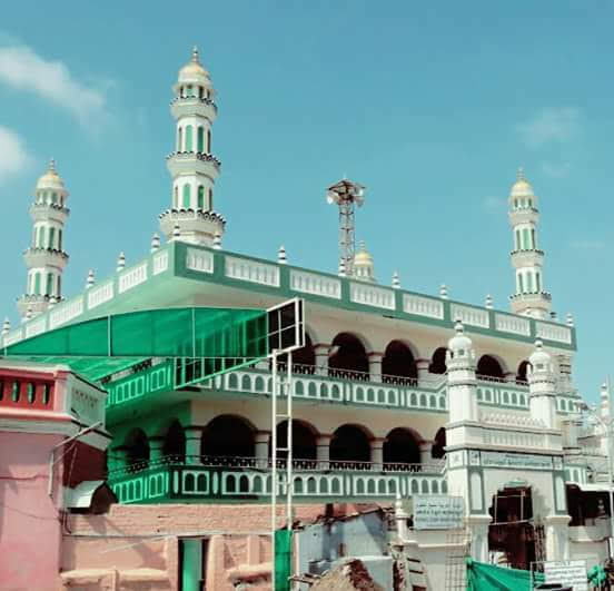 Current Mosque